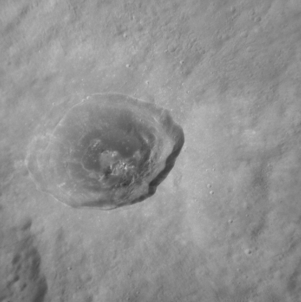 Oblique view of David crater on Mercury. MESSENGER NAC. Approximate north is at bottom. Emission Angle: 32.5 Incidence Angle: 46 Latitude: -17.7 Longitude: 67.8 Phase Angle: 28.2